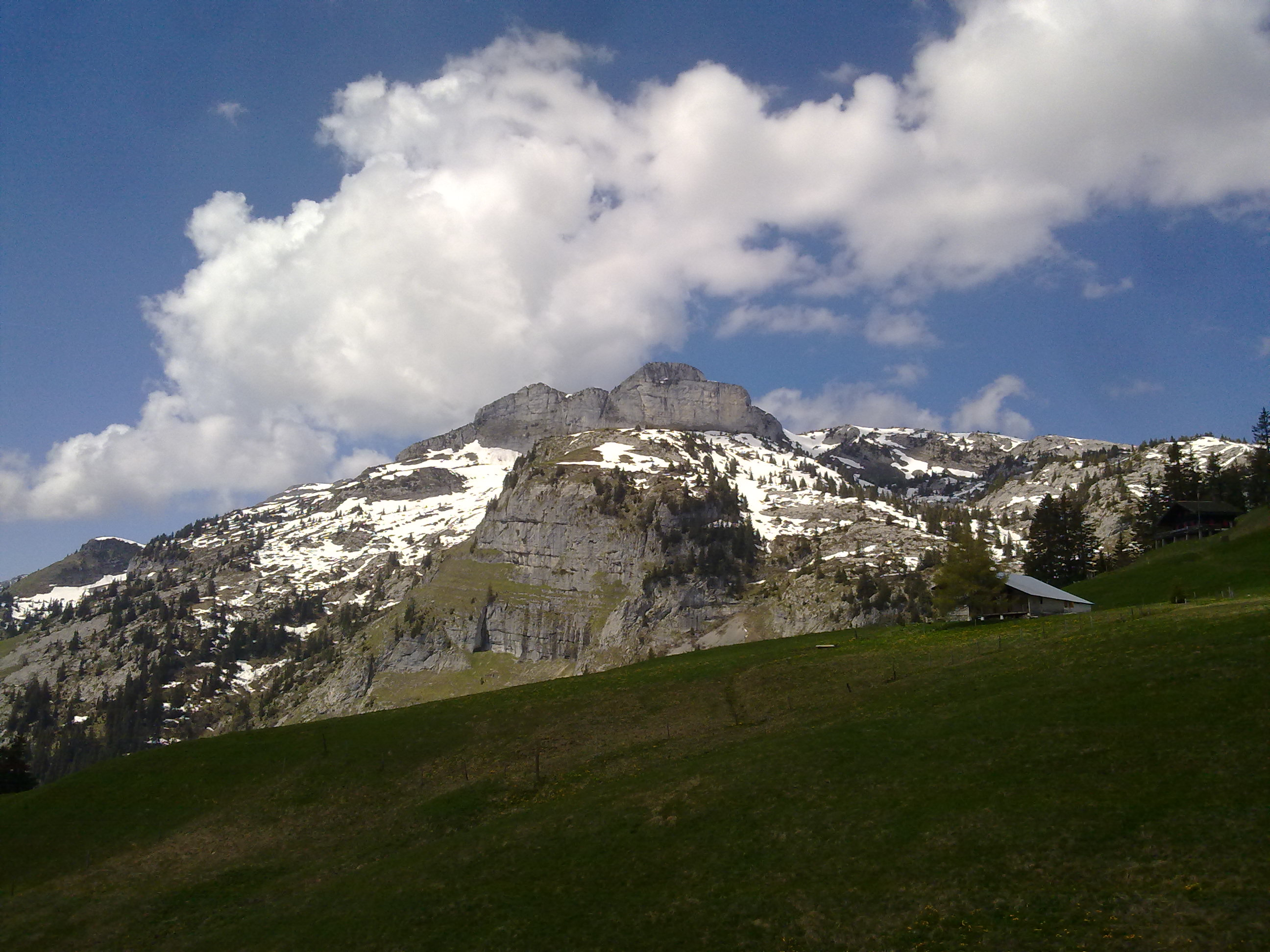 Tour de Famelon from Pierre du Moëllé